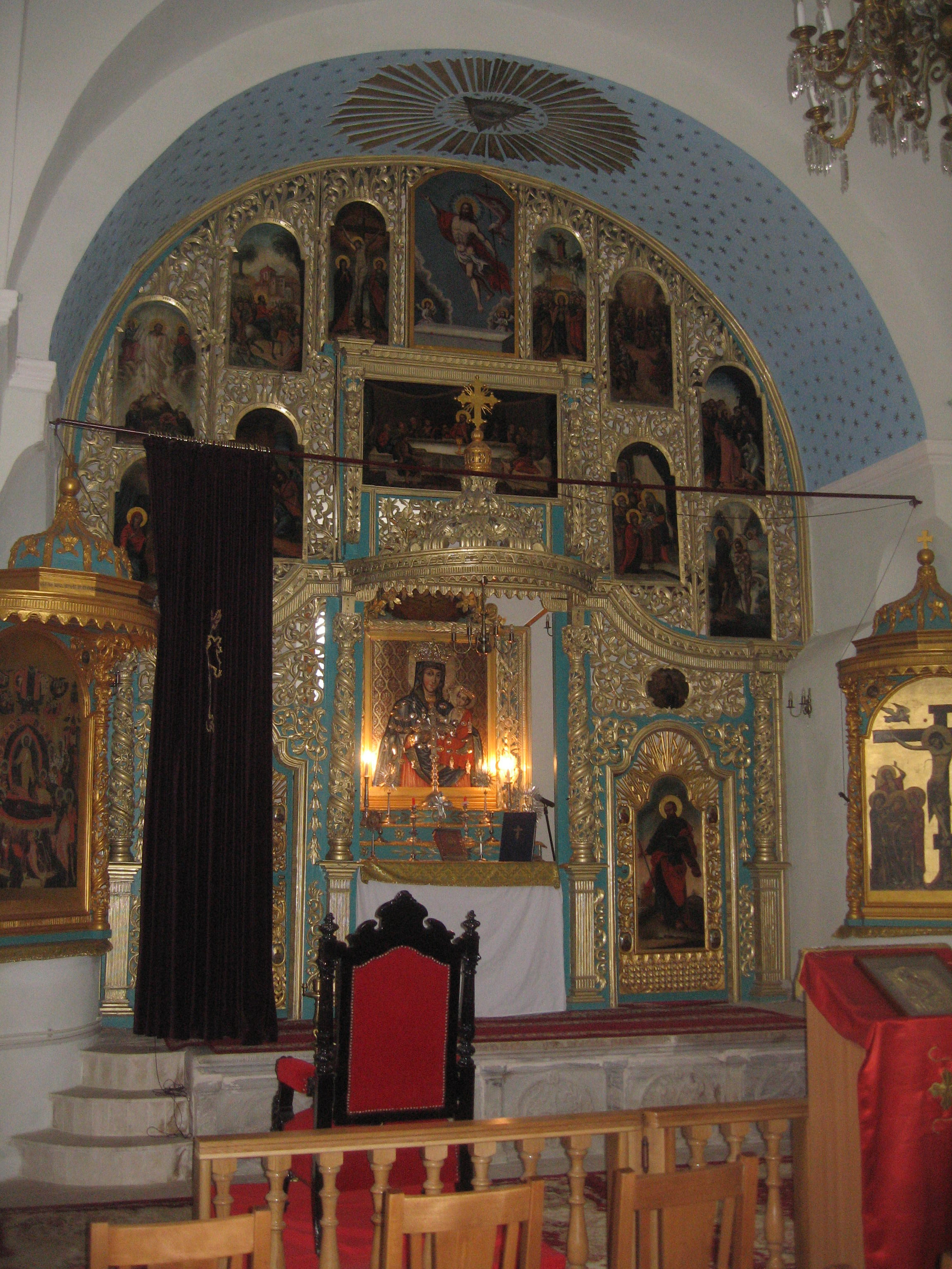 Armenian church in Iași